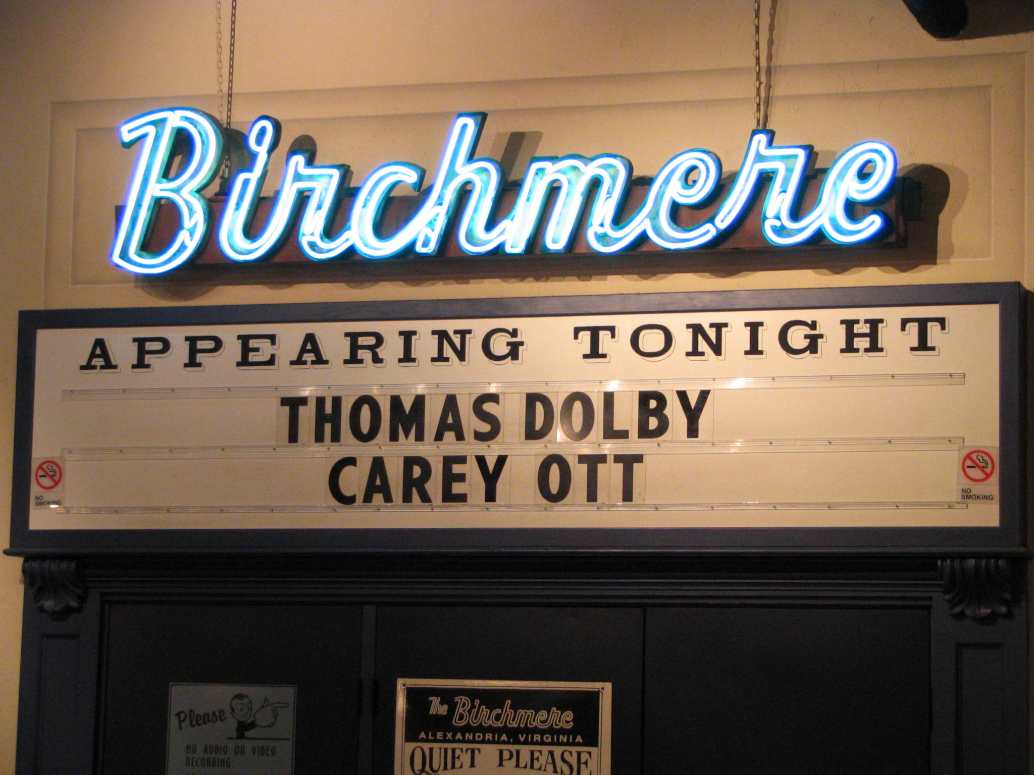 At the inside entrance to The Birchmere's theatre.